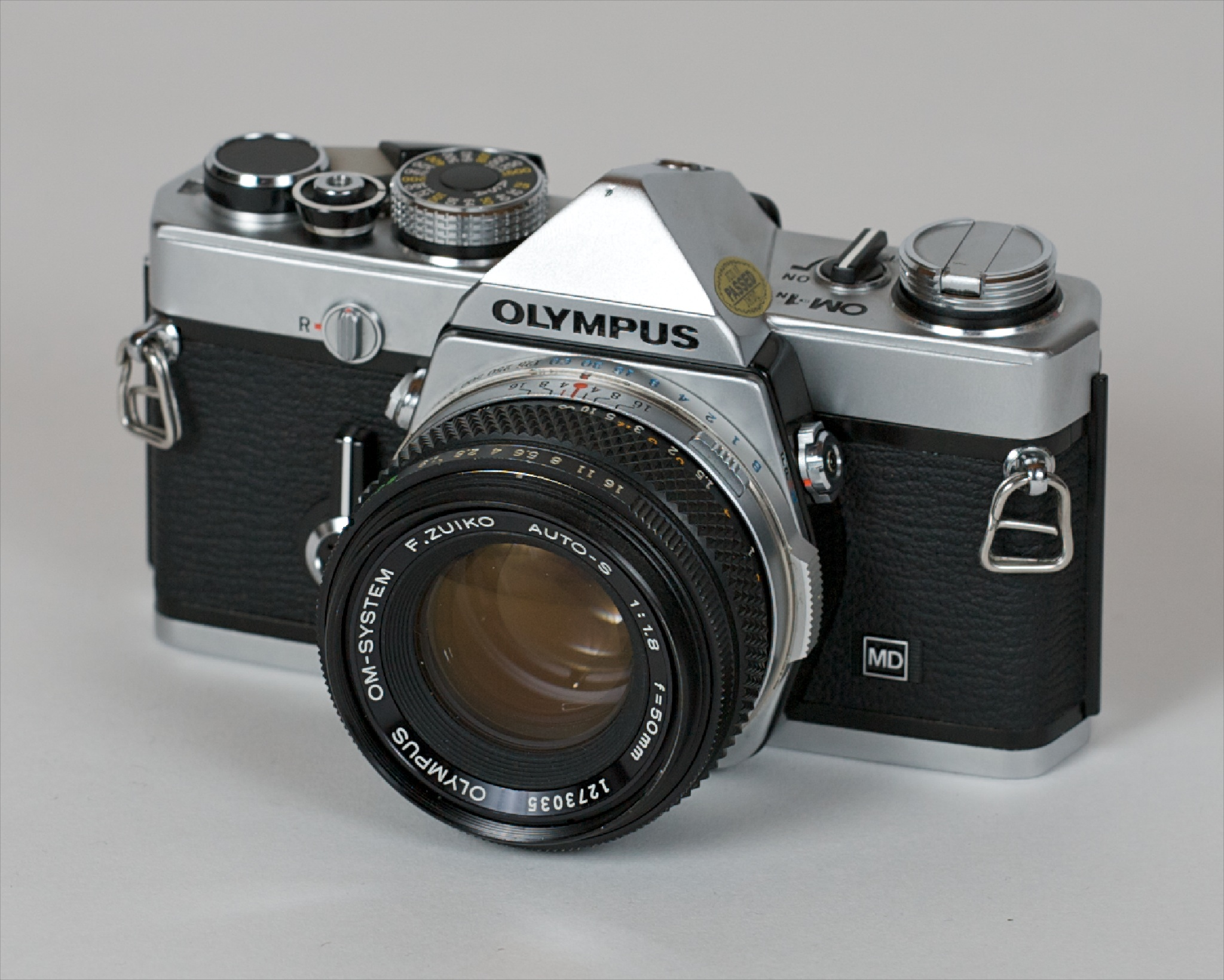 Olympus OM-1n with F.Zuiko Auto-S 50mm 1:1,8. Front view.